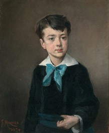 Portrait of a boy